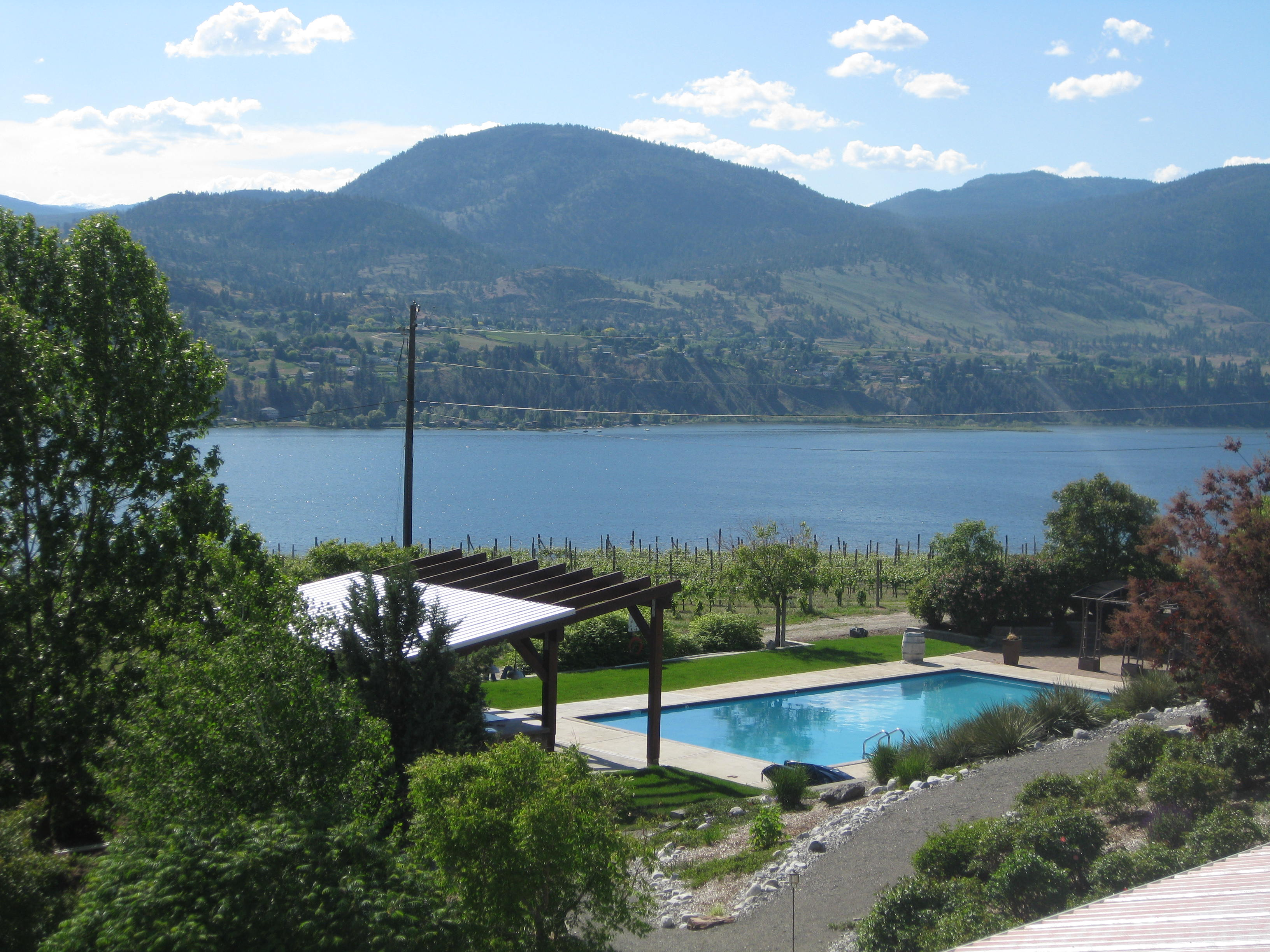 pool